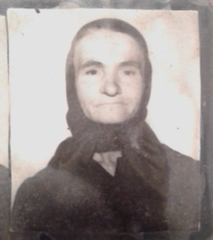 Danica Lazić, Partizan associate during the Second World War, wife of the owner of the Lazić Library, Milorad Lazić. Српски (ћирилица): Даница Лазић, сарадник Партизана током Другог светског рата, супруга тадашњег власника Библиотеке Лазић, Милорада Лазића.